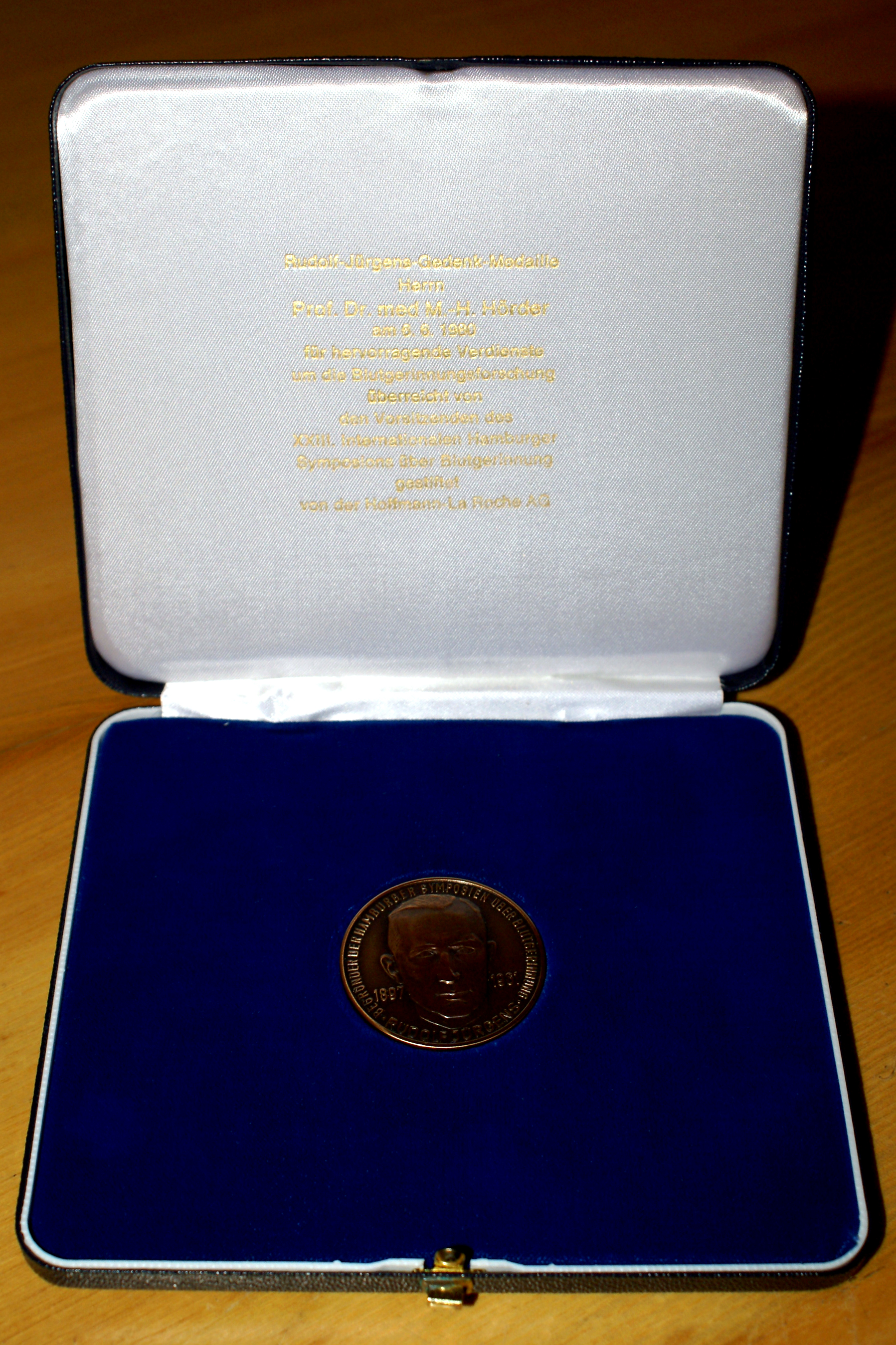 Rudolf-Jürgens-Gedenk-Medaille Casket